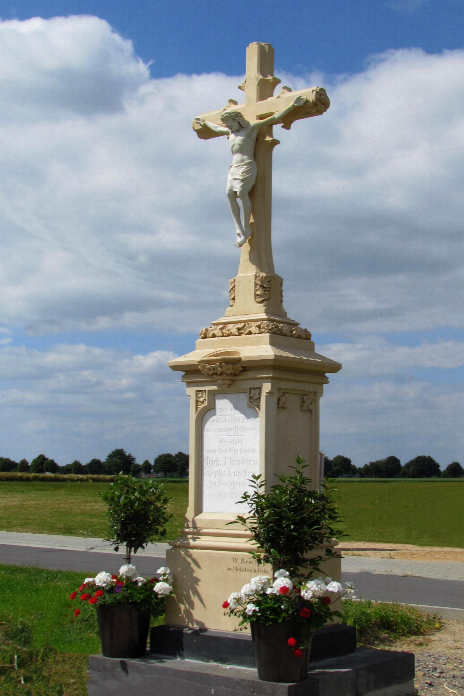 This is a photograph of an architectural monument.